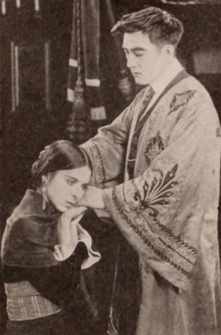 Still from the American drama film The Devil's Claim (1920) with Colleen Moore and Sessue Hayakawa, on page 72 of the May 15, 1920 Exhibitors Herald.